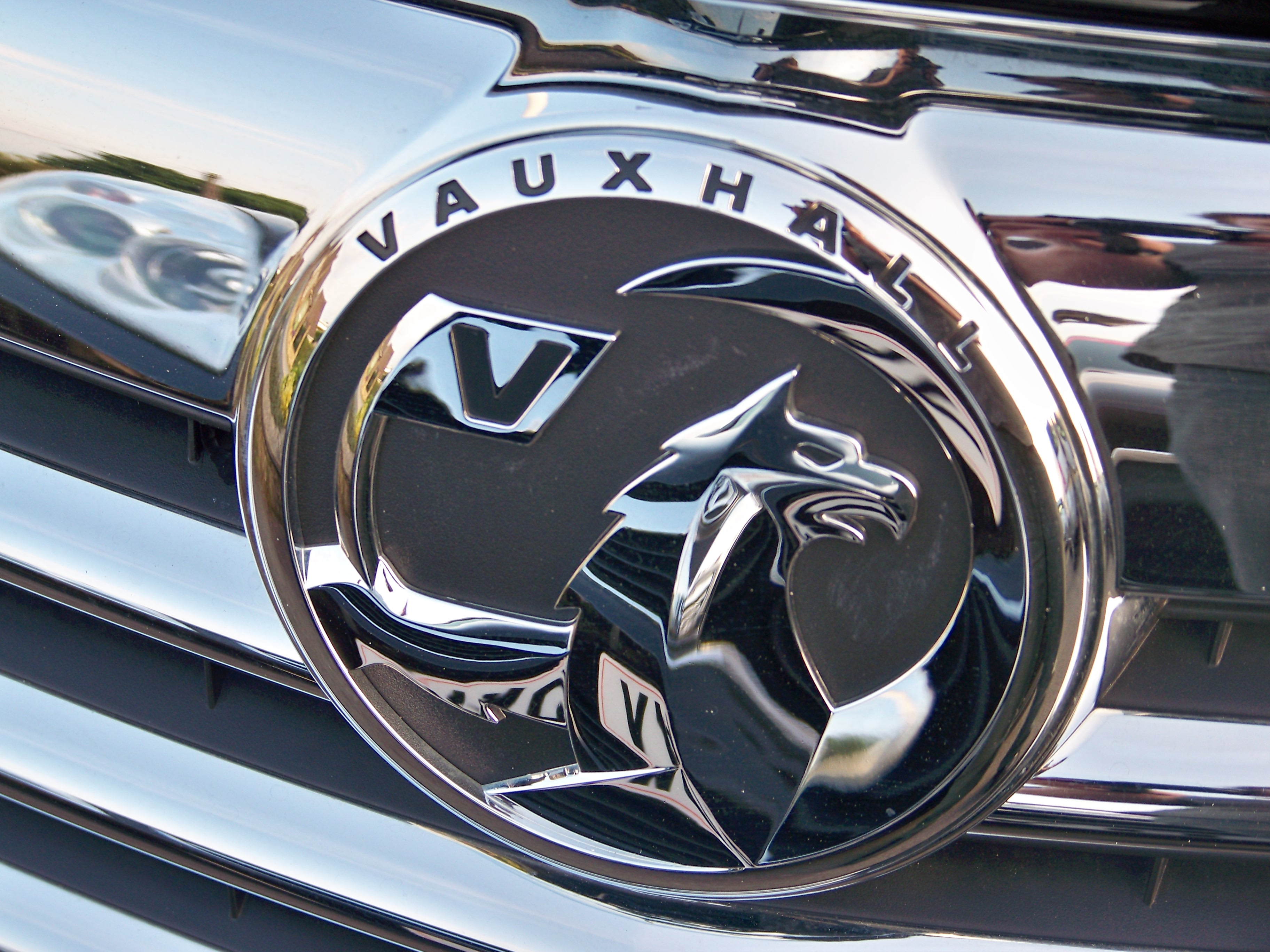 New Vauxhall Motors badge on a new Vauxhall Insignia. 2nd June 2009.